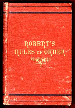 1876 cover of Robert's Rules of Order , a book containing rules of order intended to be adopted for use by a deliberative assembly.